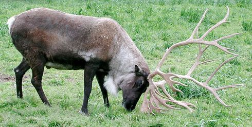 Laurie Thorpe is a natural resource specialist in the Anchorage District Office, with a focus on vegetation, grazing, and invasive species. Based on current science and field conditions, Laurie makes recommendations to BLM program managers about the prevention, management, and monitoring of non-native invasive species and sustainable ecosystems in land use decisions. In Alaska, land use includes an interesting and unique twist – reindeer grazing. Laurie works with interagency partners and the Alaska Reindeer Council to promote responsible use of the land and success in the reindeer industry for local residents. According to Laurie, the BLM’s partnership with the University of Alaska, in particular, provides a stellar team of scientists and interns to conduct field work and collect data for informed decisions about the industry. With such unique work, it’s not difficult to see why “reindeer work” is Laurie’s favorite part of the job. She says: “In addition to building trust in our working relationships with reindeer herders and our inter-agency partners…I am making a difference for industry success.” Photo by Karen Laubenstein, BLM